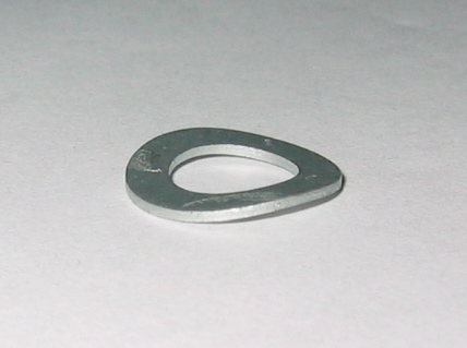 wave washer